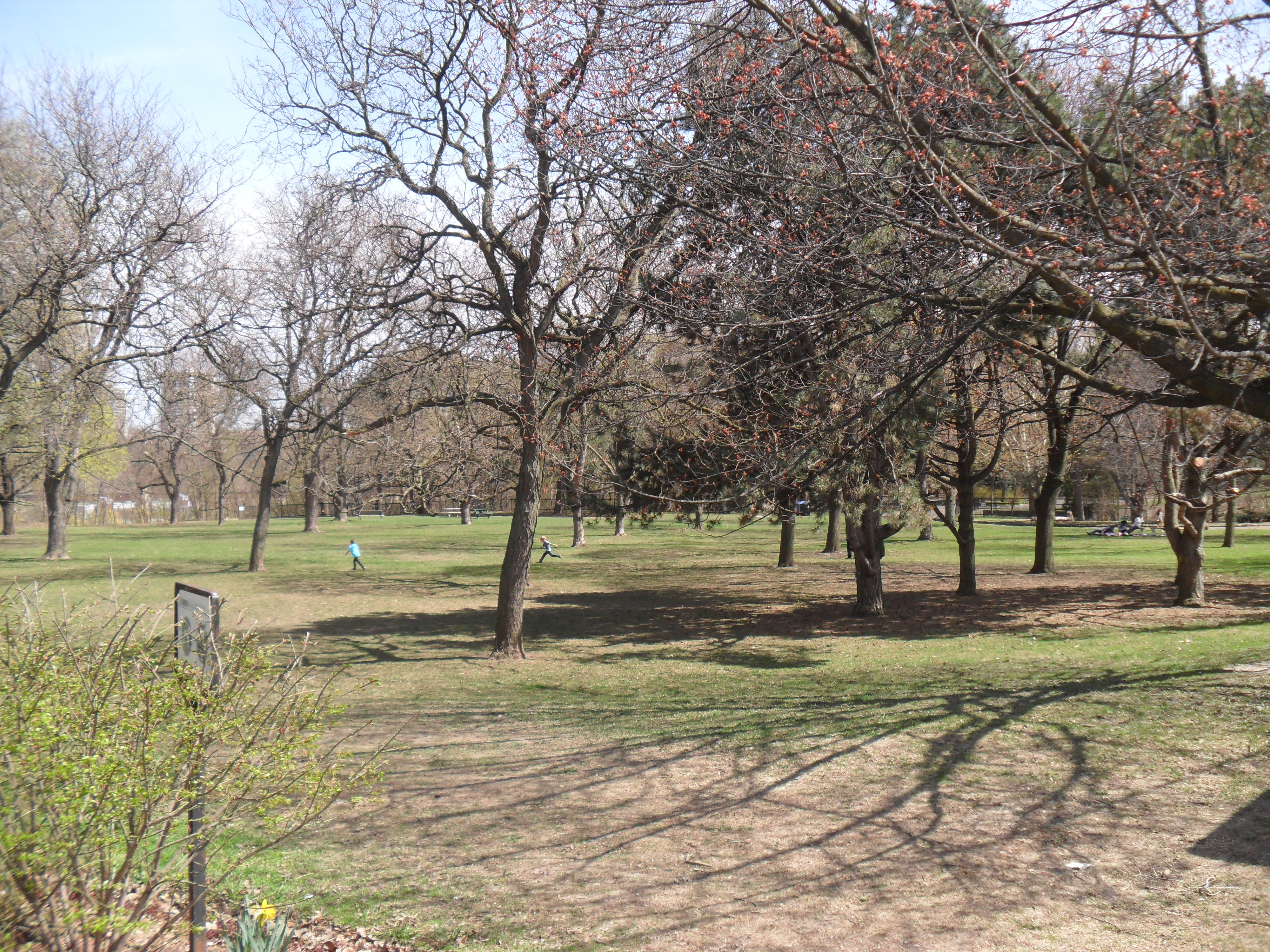 A view of the modern Chorley Park, Toronto